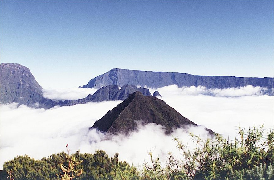 Reunion island, Brulé point.